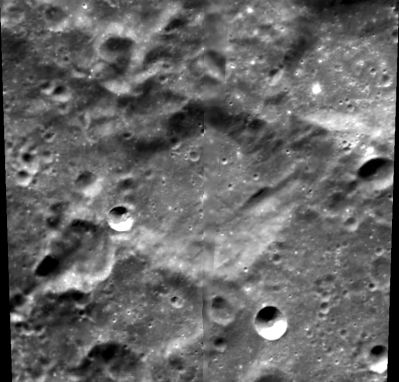 Tiling lunar crater - Clementine image